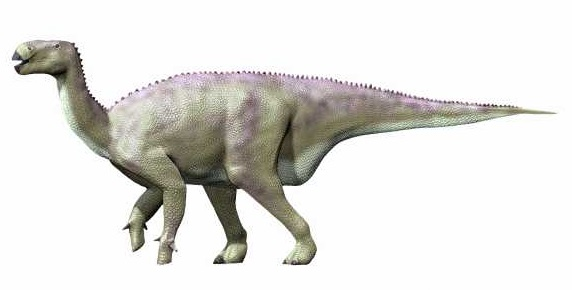 Restoration of Iguanodon bernissartensis